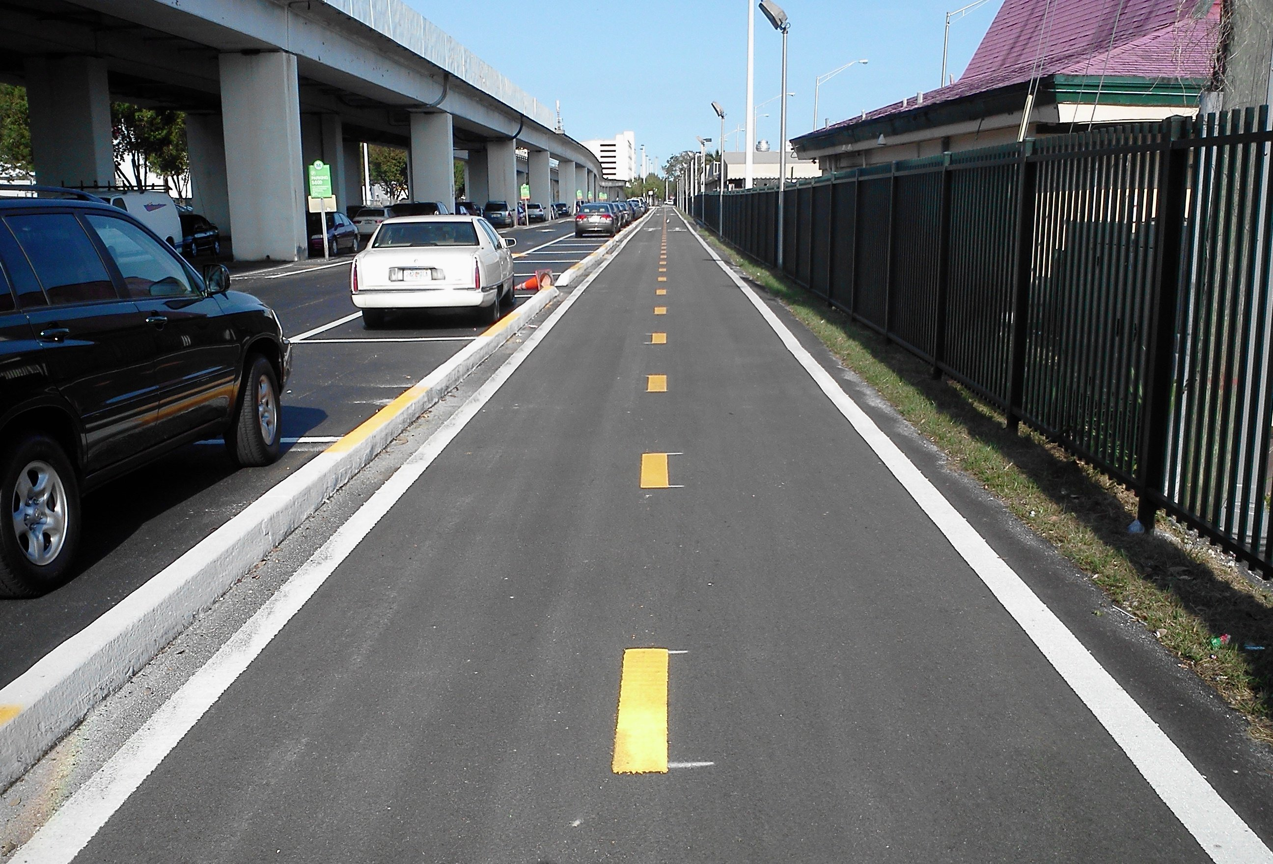 North end of the MetroPath beneathe the Miami Metrorail guideway.